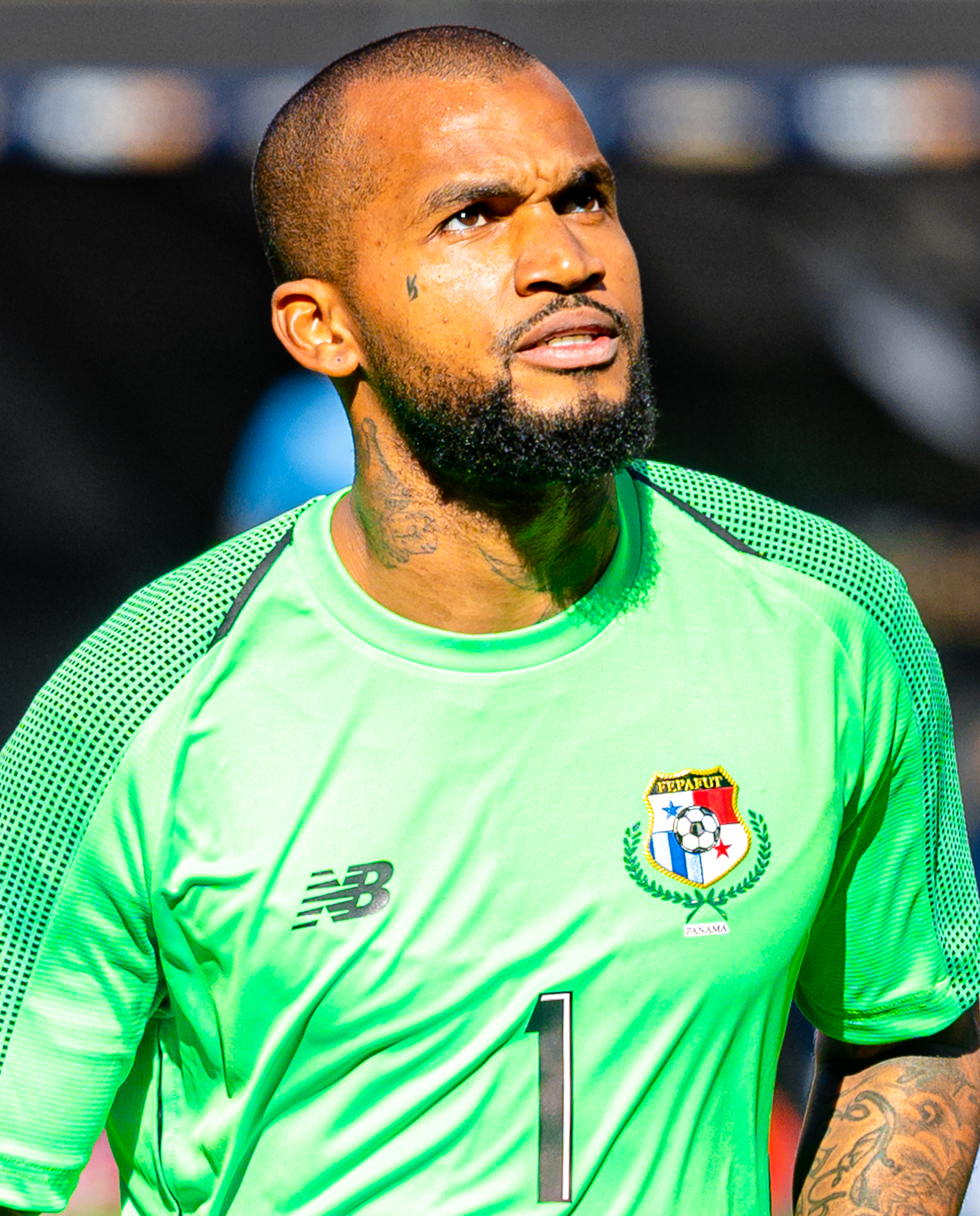 Concacaf Gold Cup